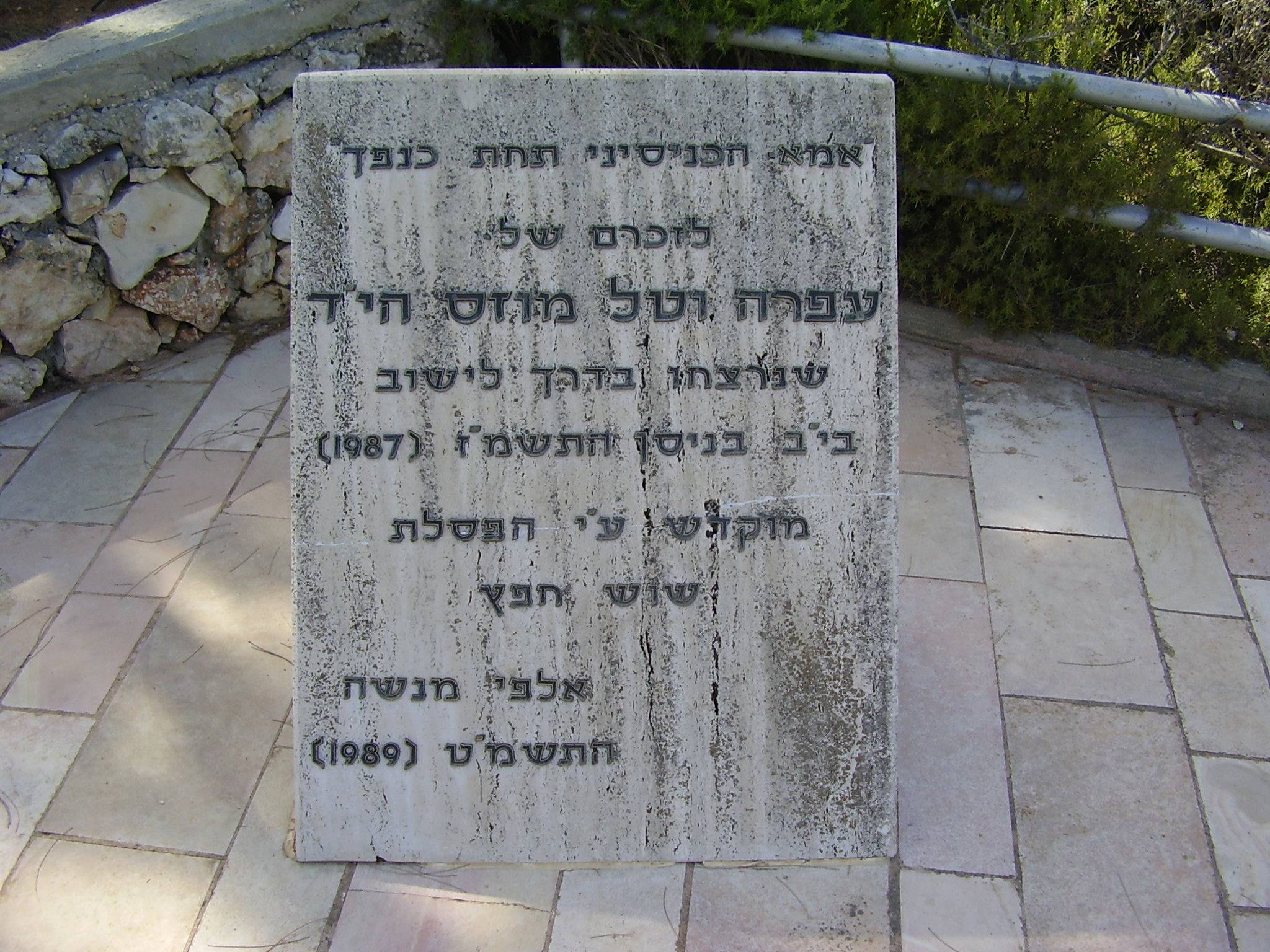 ofra & tal mozes memorial in alfei menashe